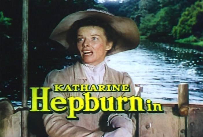 Screenshot of Katharine Hepburn from the trailer for the film The African Queen.